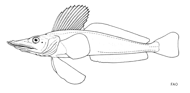 A drawing of the crocodile icefish Neopagetopsis ionah, the Jonah's icefish, by French ichythologist J.C. Hureau.